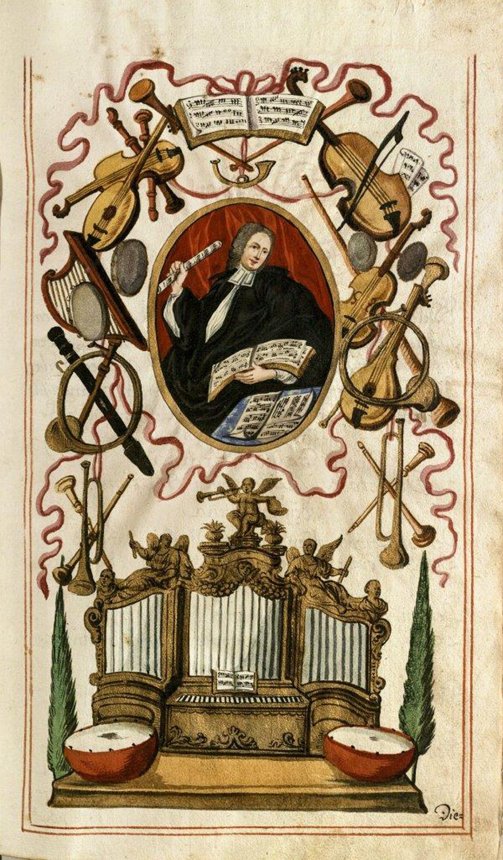 Portrait, believed to show Philipp David Kräuter (Stadtarchiv Augsburg)